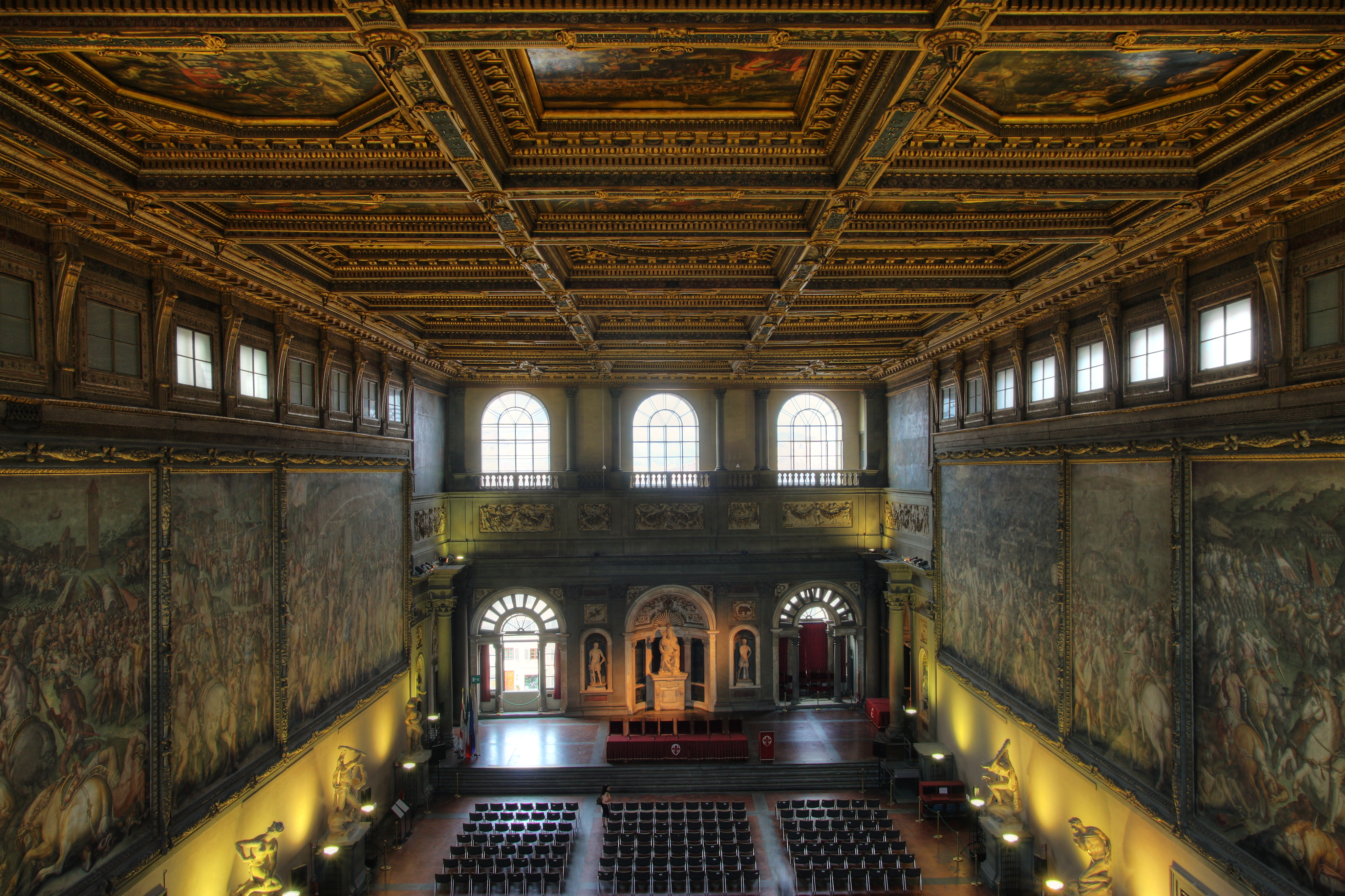 The Salone dei Cinquecento, in the Palazzo Vecchio, in Florence.